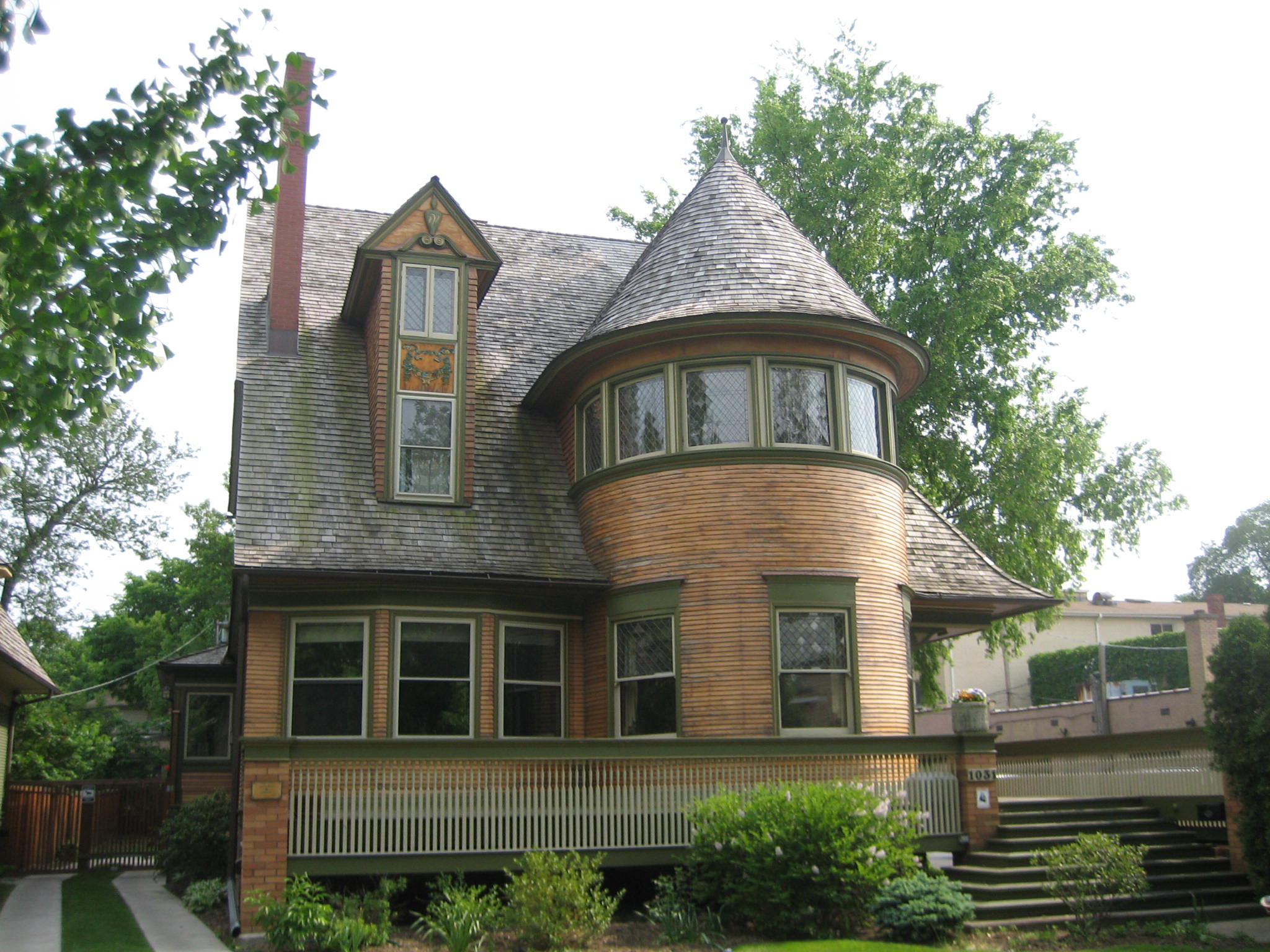 Walter H. Gale House, designed by Frank Lloyd Wright, 1893. National Register of Historic Places.